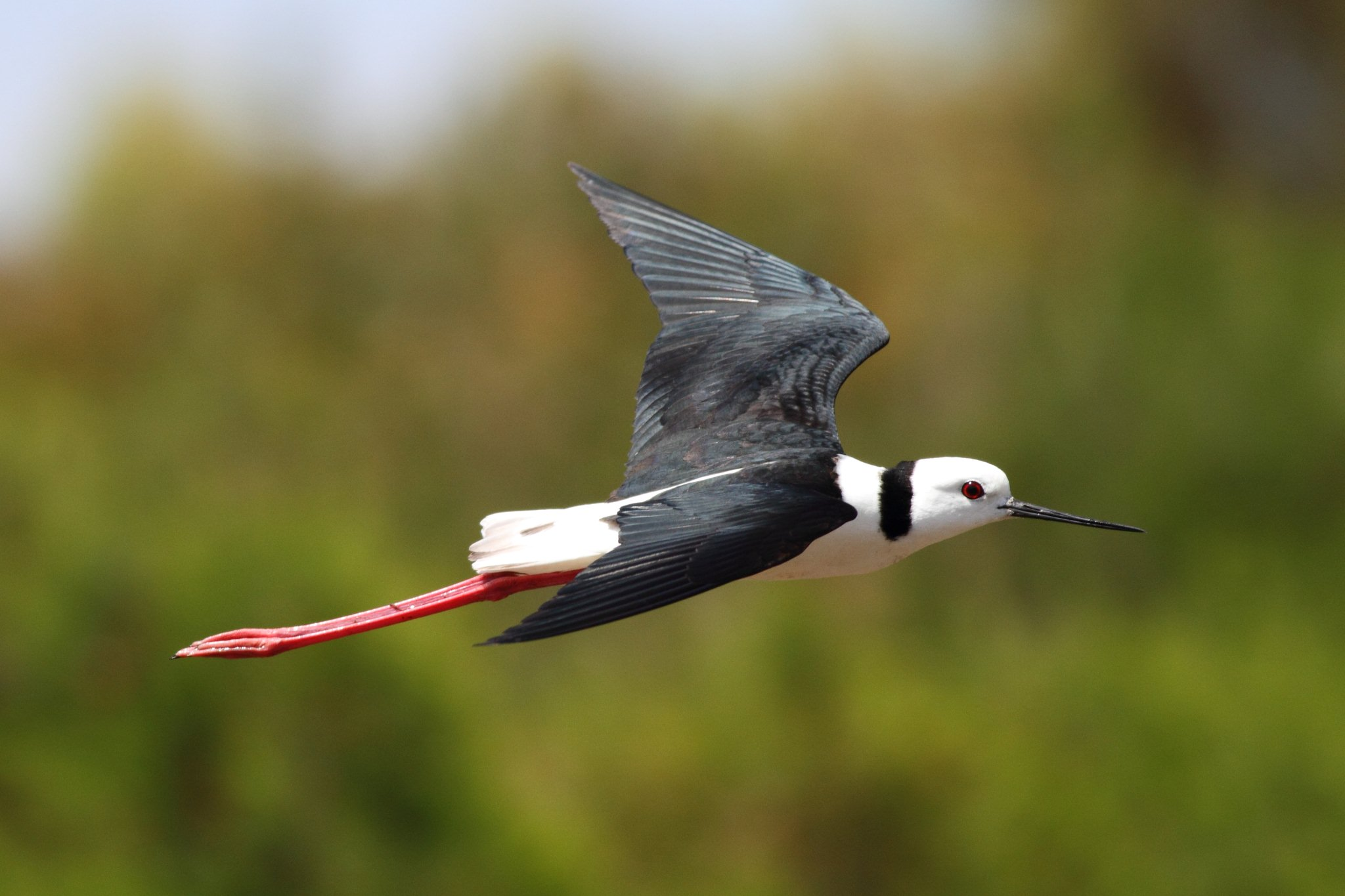 A White-headed Stilt Himantopus leucocephalus flying at Braeside Park, Melbourne, Victoria, Australia.